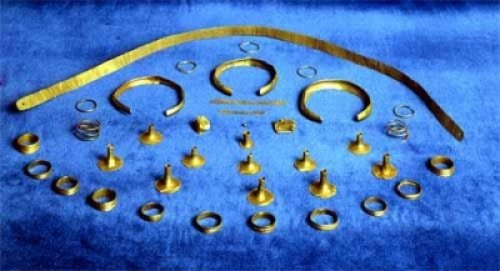 Treasure of Cabezo Redondo, 10th century BCE